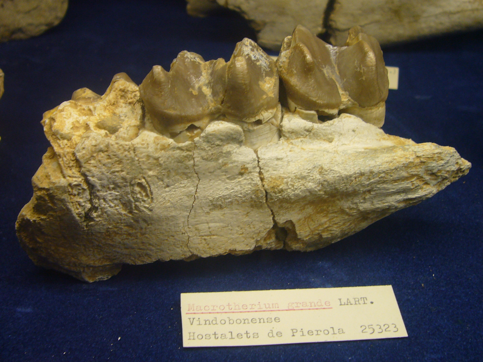 Macrotherium grande. Fossils. Collection of paleontology of the Geological Museum of the Barcelona Seminari (Museu Geològic del Seminari de Barcelona).